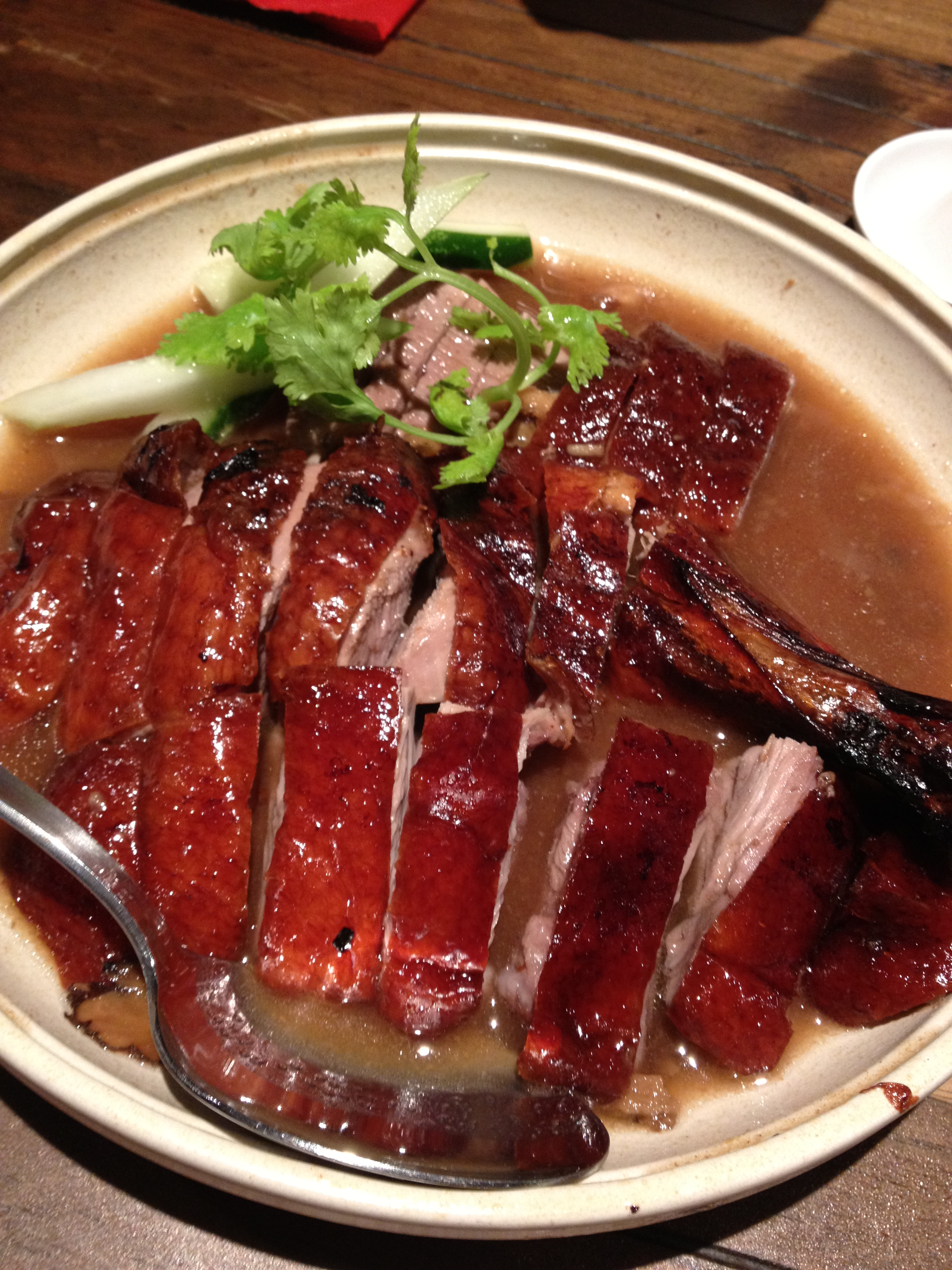 Duck roasted with Chinese Angelica Herb (当归) from Dian Xiao Er restaurant in Nex shopping centre, Serangoon, Singapore.